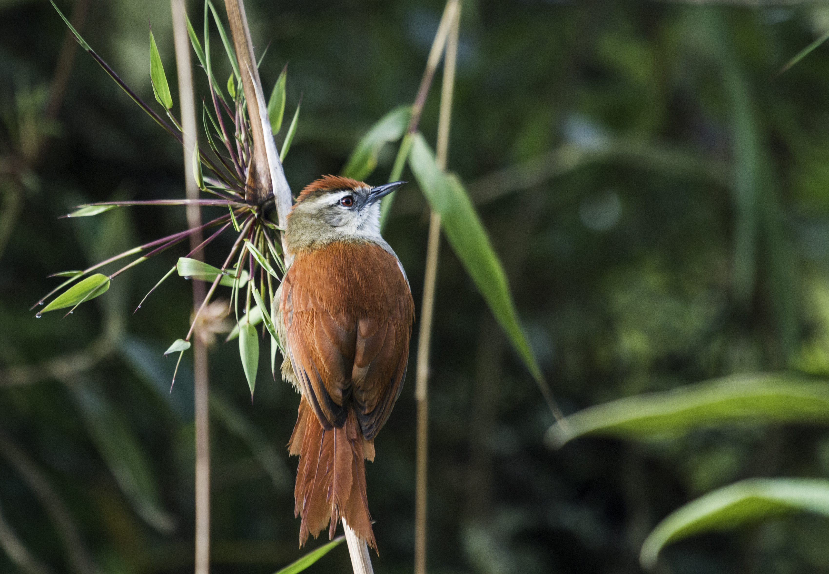 Marcapata Spinetail (nominate ssp.) from Abra Malaga, Cusco, Peru.